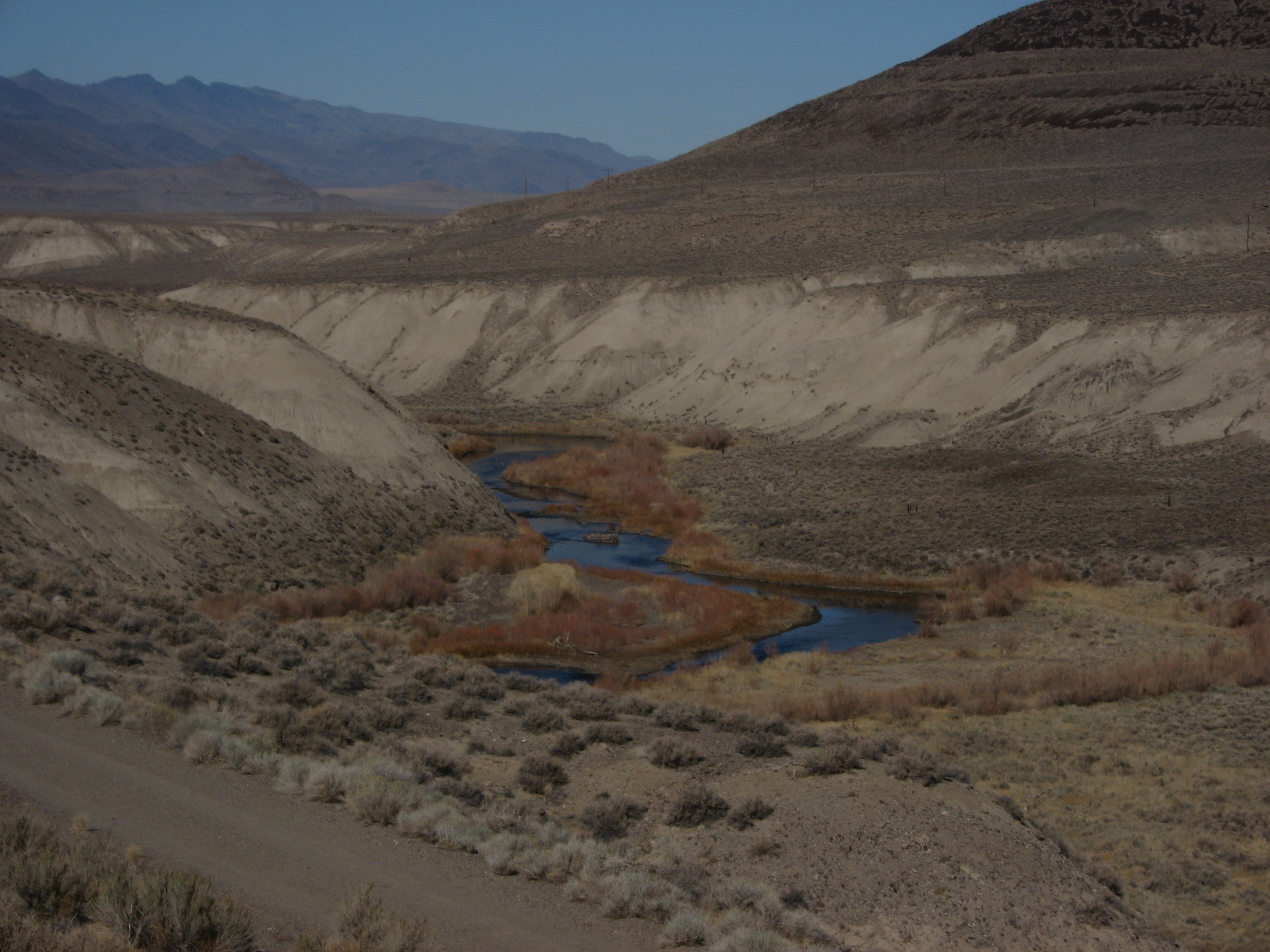 State Route 447 (SR 447) is a state highway in the U.S. state of Nevada. The highway is almost entirely within Washoe County but does for a brief time enter Pershing County, Nevada.